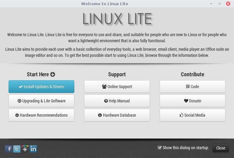 The Welcome Center of Linux Lite 3.0.